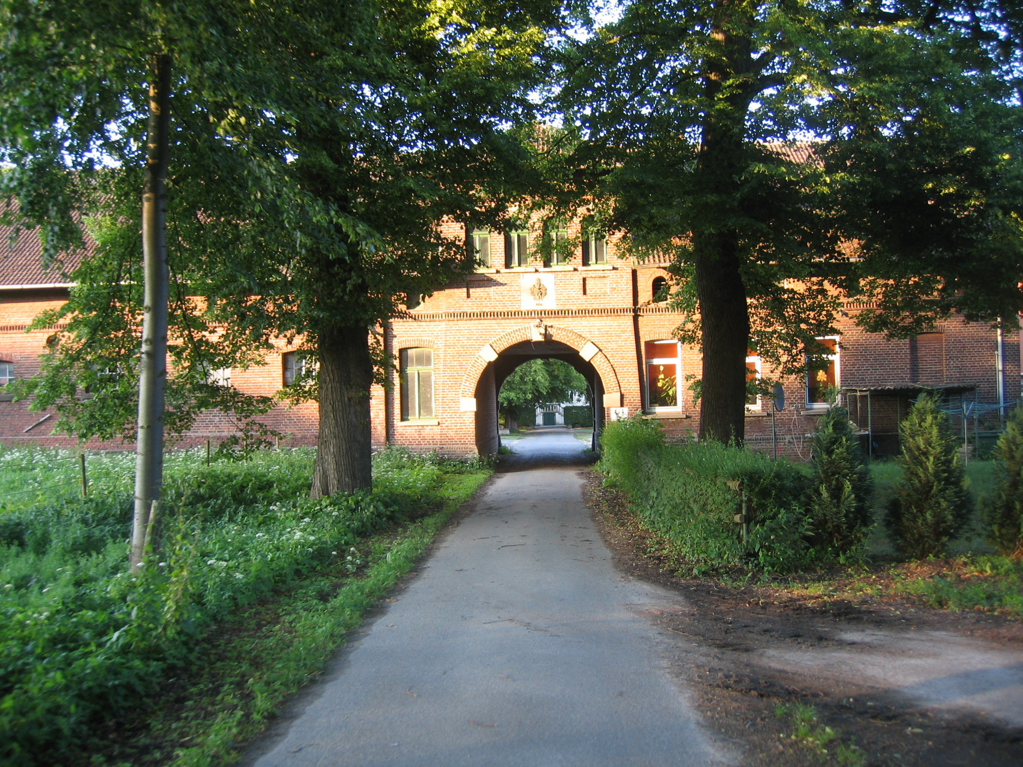 Steinlake Castle in Kirchlengern, District of Herford, North Rhine-Westphalia, Germany.